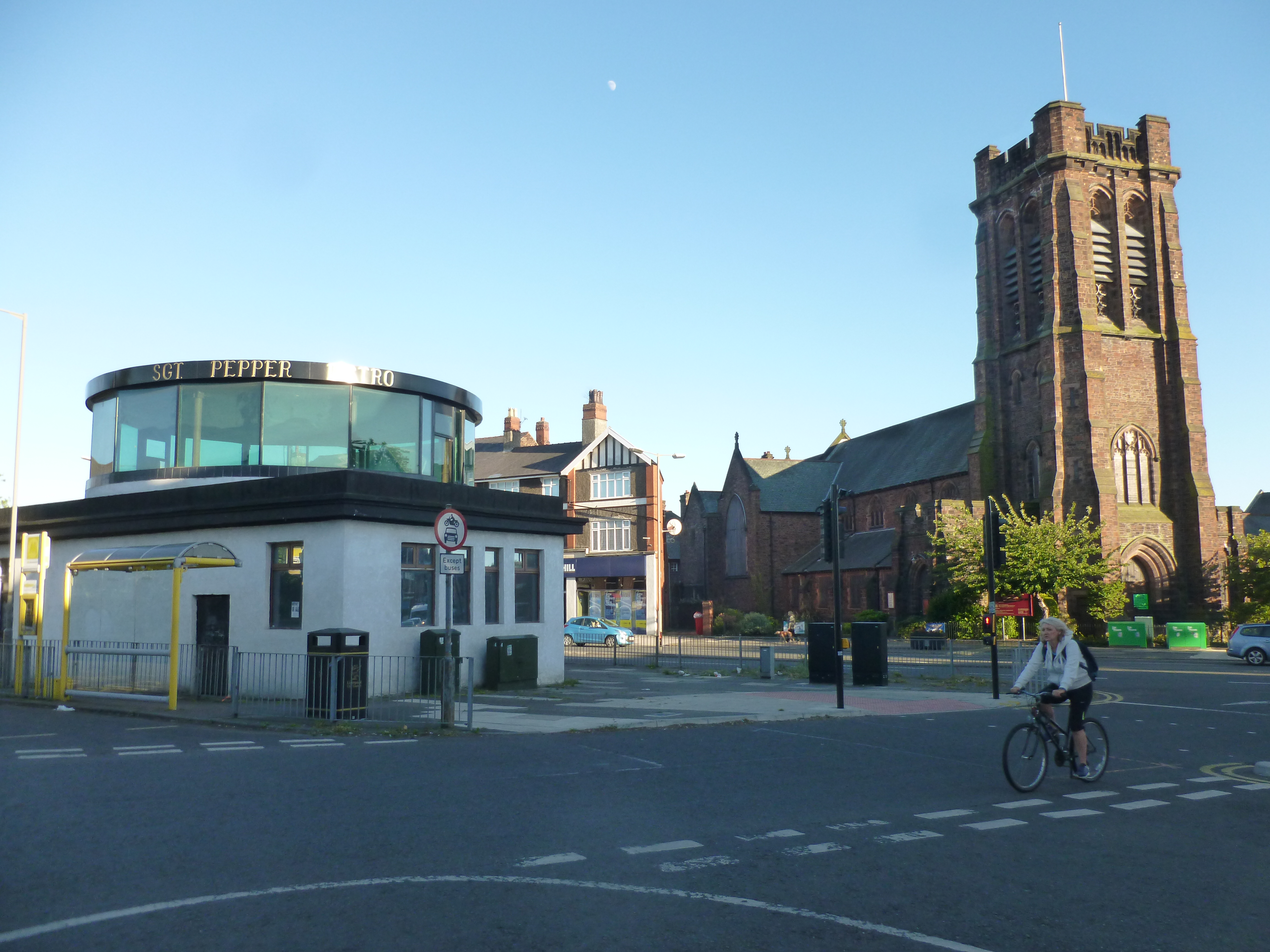 Penny Lane, Liverpool. Crossing the street (Penny Lane) there is the roundabout and crossing Smithdown Road, there is St. Barnabas Church.